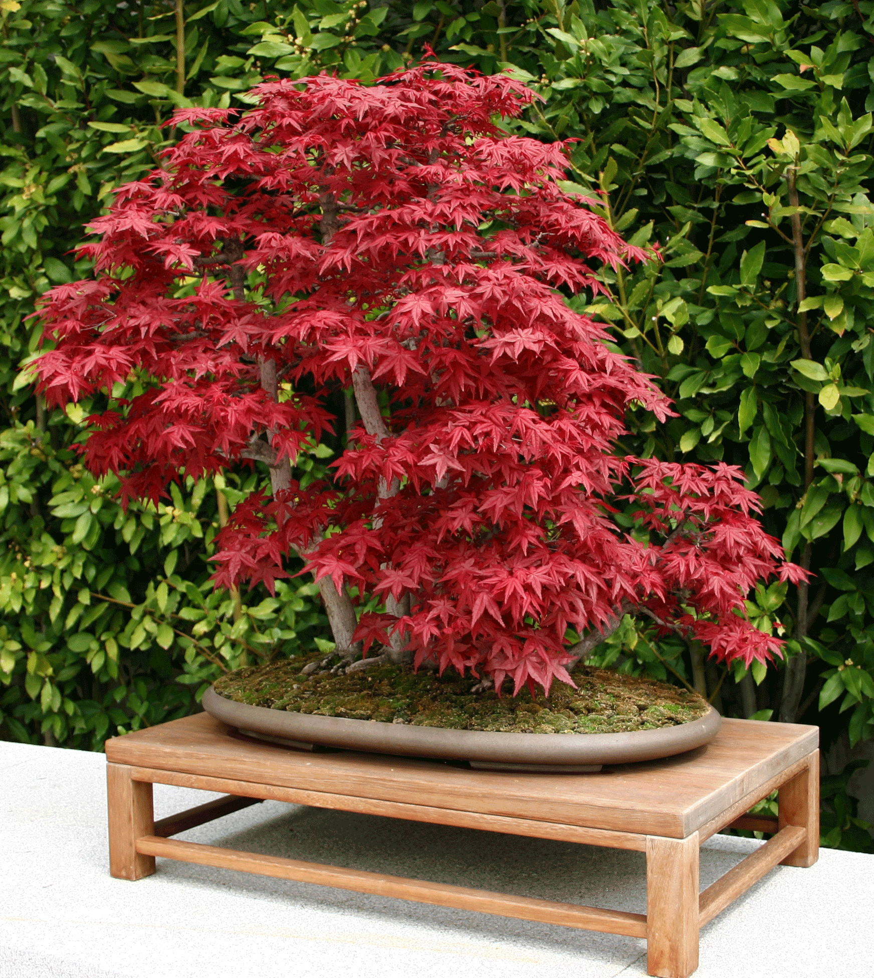 Bonsai from the collection of former Spanish President Felipe González, donated to the Royal Botanical Garden of Madrid.